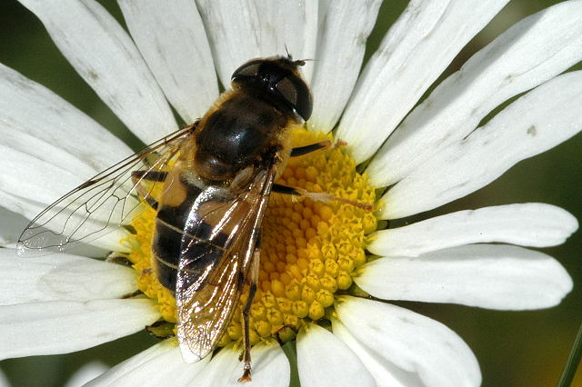 Picture taken in Commanster, Belgian High Ardennes . Species: female Eristalis tenax I think its a Eristalis pertinax